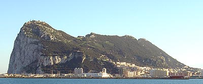 Picture of the West face of Gibraltar from a distance.